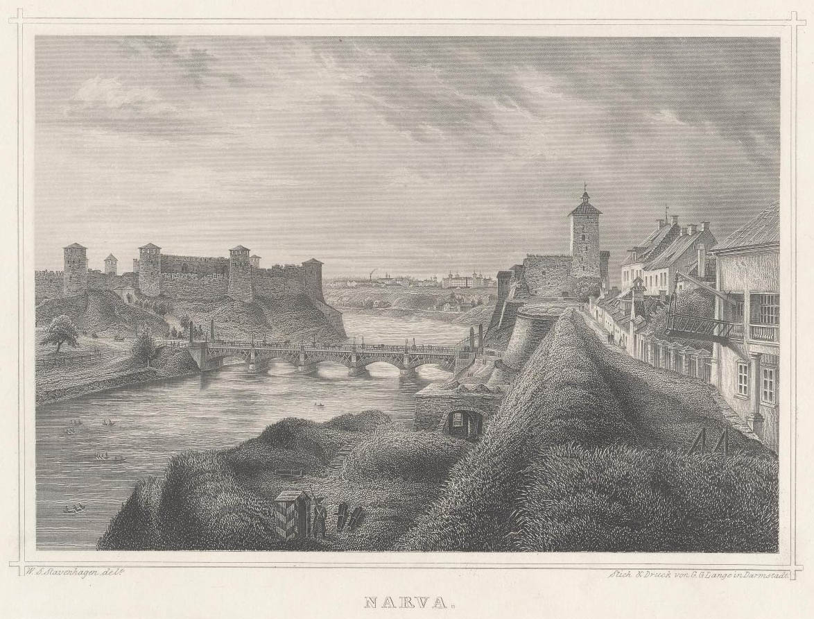 The Narva River between Narva and Ivangorod (a 1867 print).